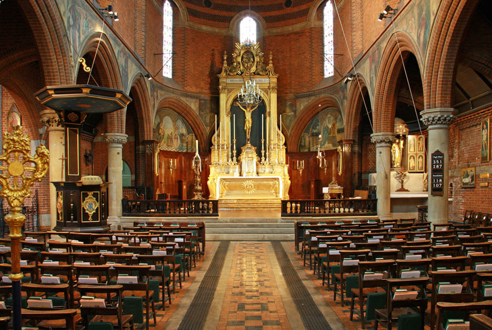 St Mary, Bourne Street, London SW1 - East end, near to Chelsea, Kensington And Chelsea, Great Britain.